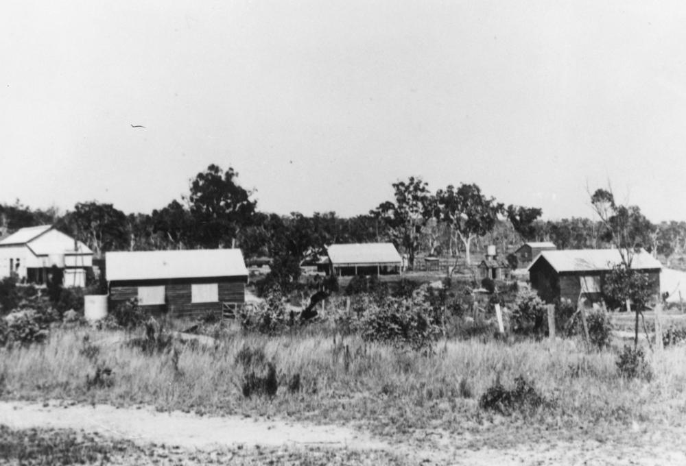 Amiens settlement, 1920 View includes the back of the cannery, the Druids Hall and Thomas Smith's tinsmith building on the right. (Description supplied with photograph).